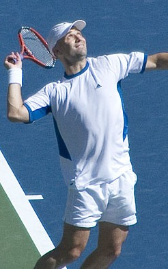 tighter crops of pics already posted